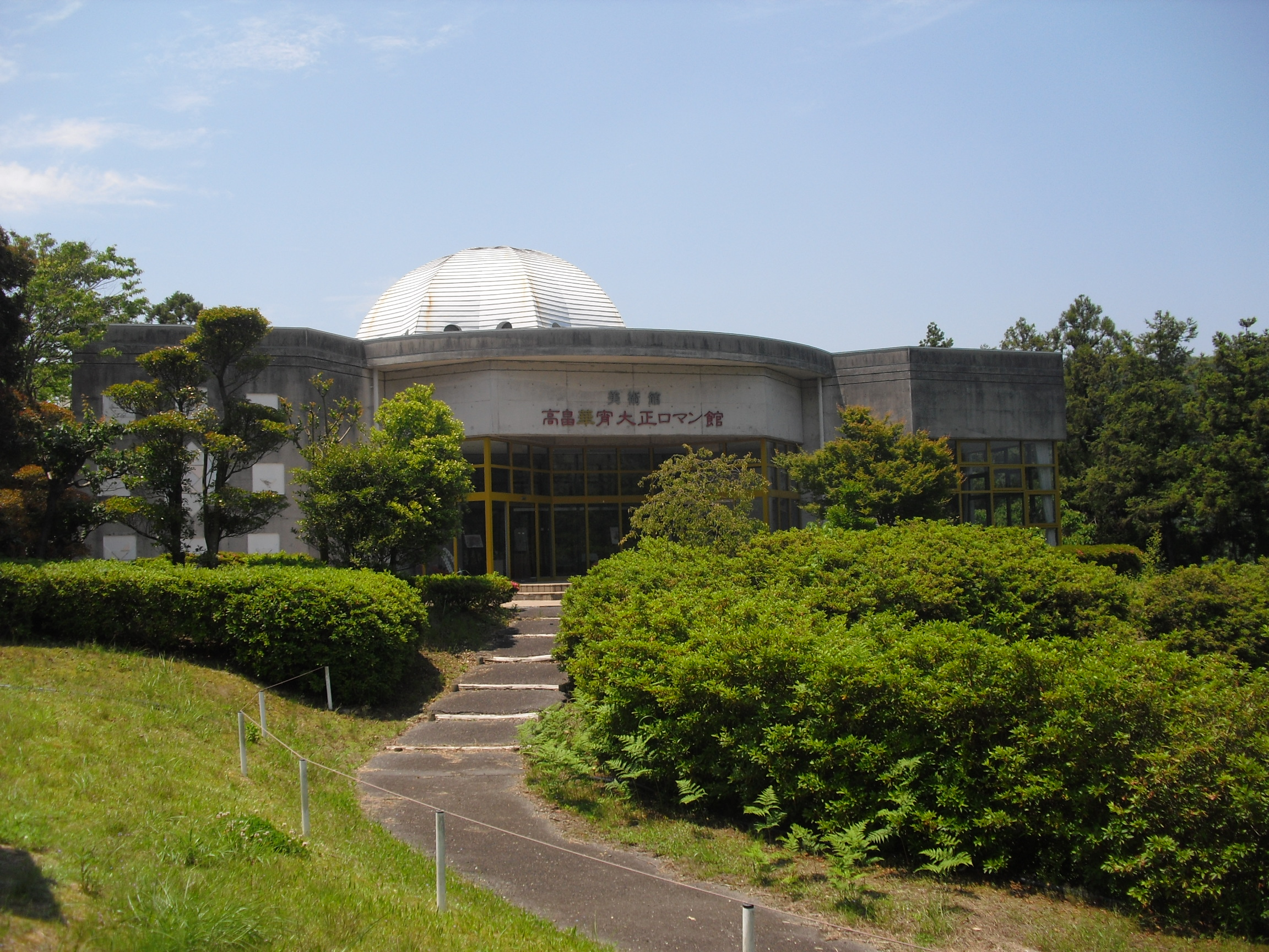 Takabatake Taisho roman museum